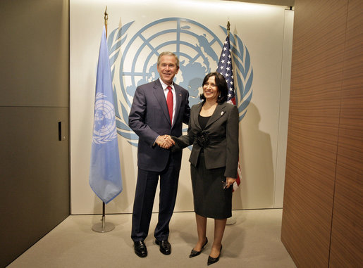 George W. Bush meets with Sheikha Haya Rashed Al Khalifa of Bahrain, President of the 61st session of the United Nations General Assembly, at the United Nations in New York City.